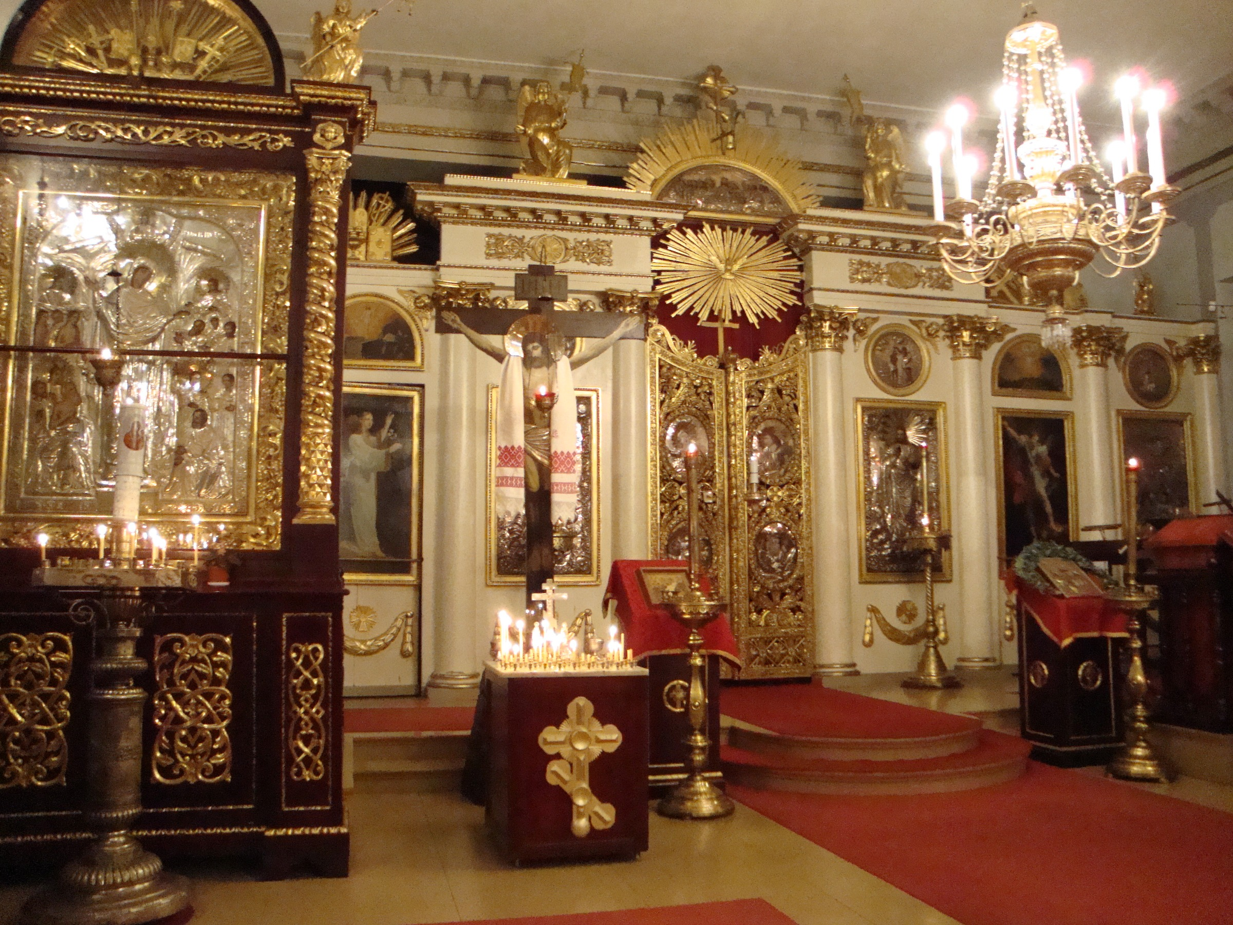 Interior of Church of Holy Trinity, Unioninkatu 31, Helsinki, Finland. Carl Ludvig Engel, 1826.